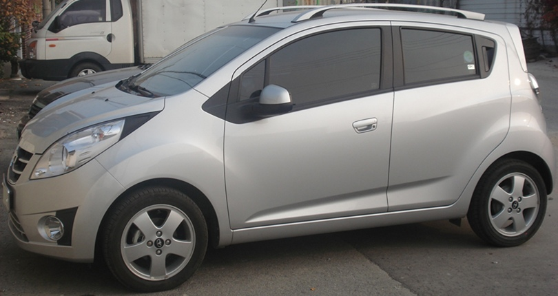 Daewoo Matiz Creative